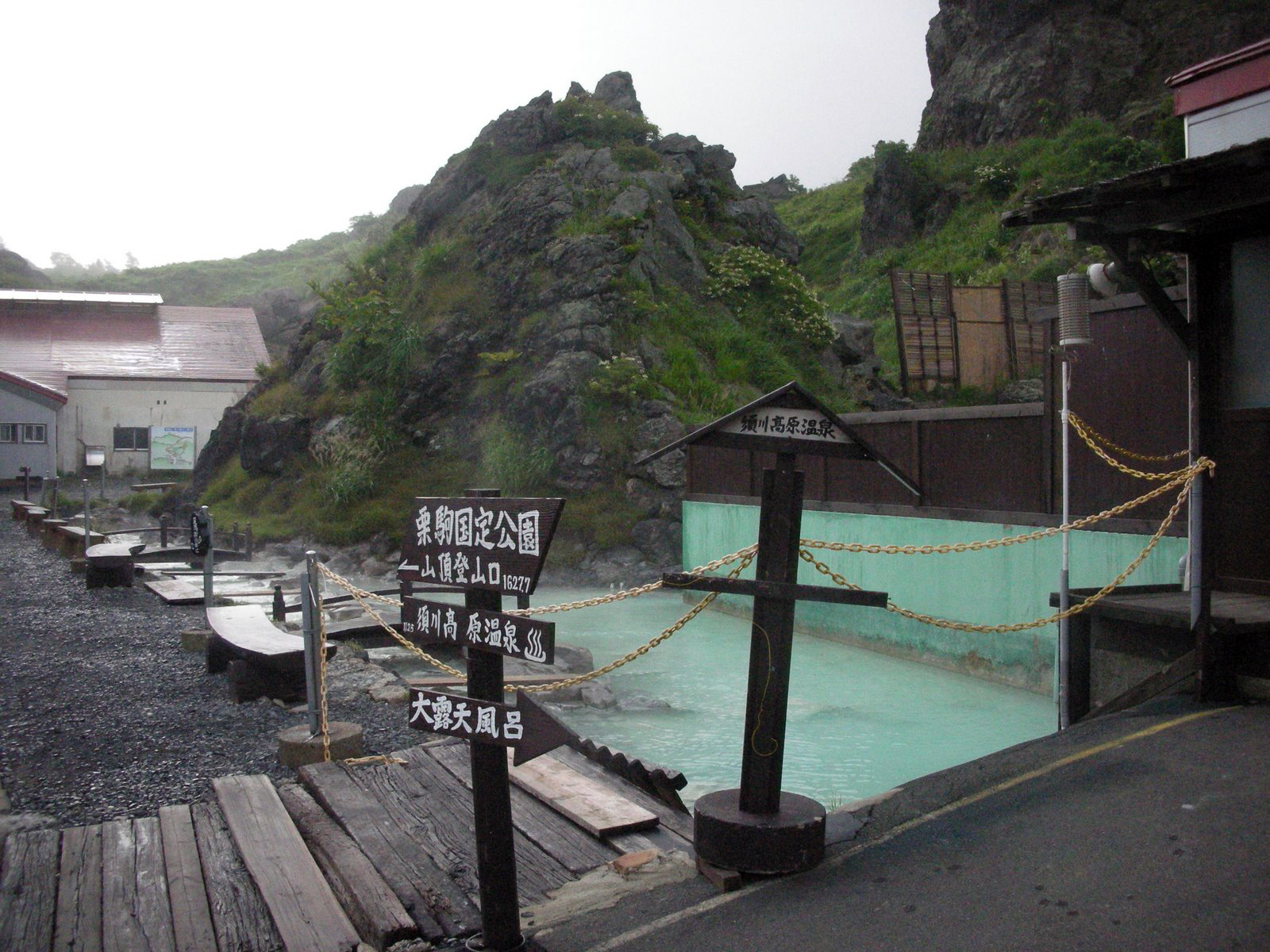 Sukawa Kōgen Onsen.